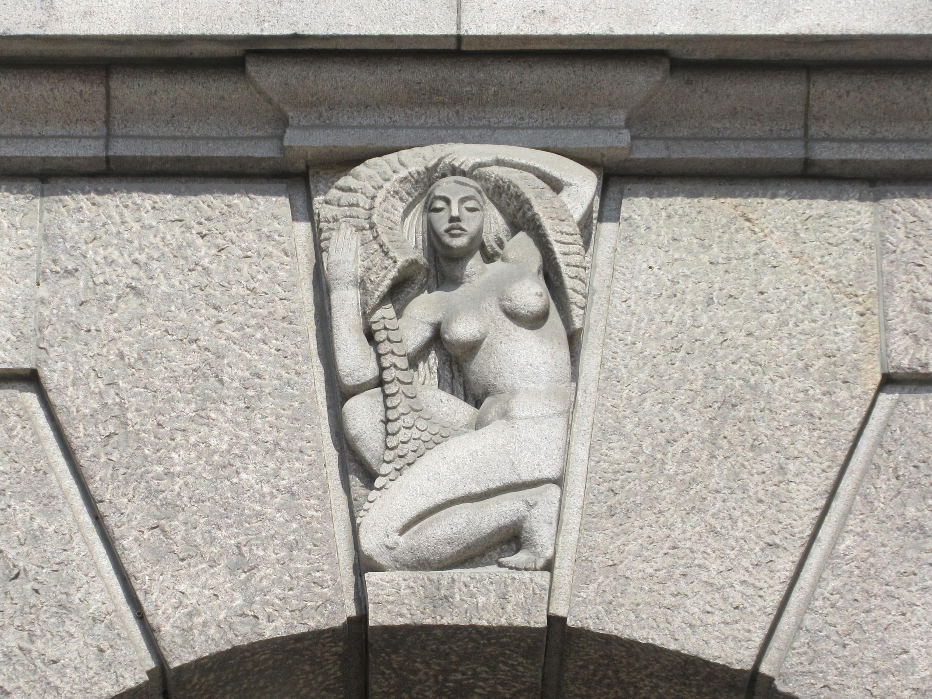 Keystone above the main entrance in Copenhagen, Denmark